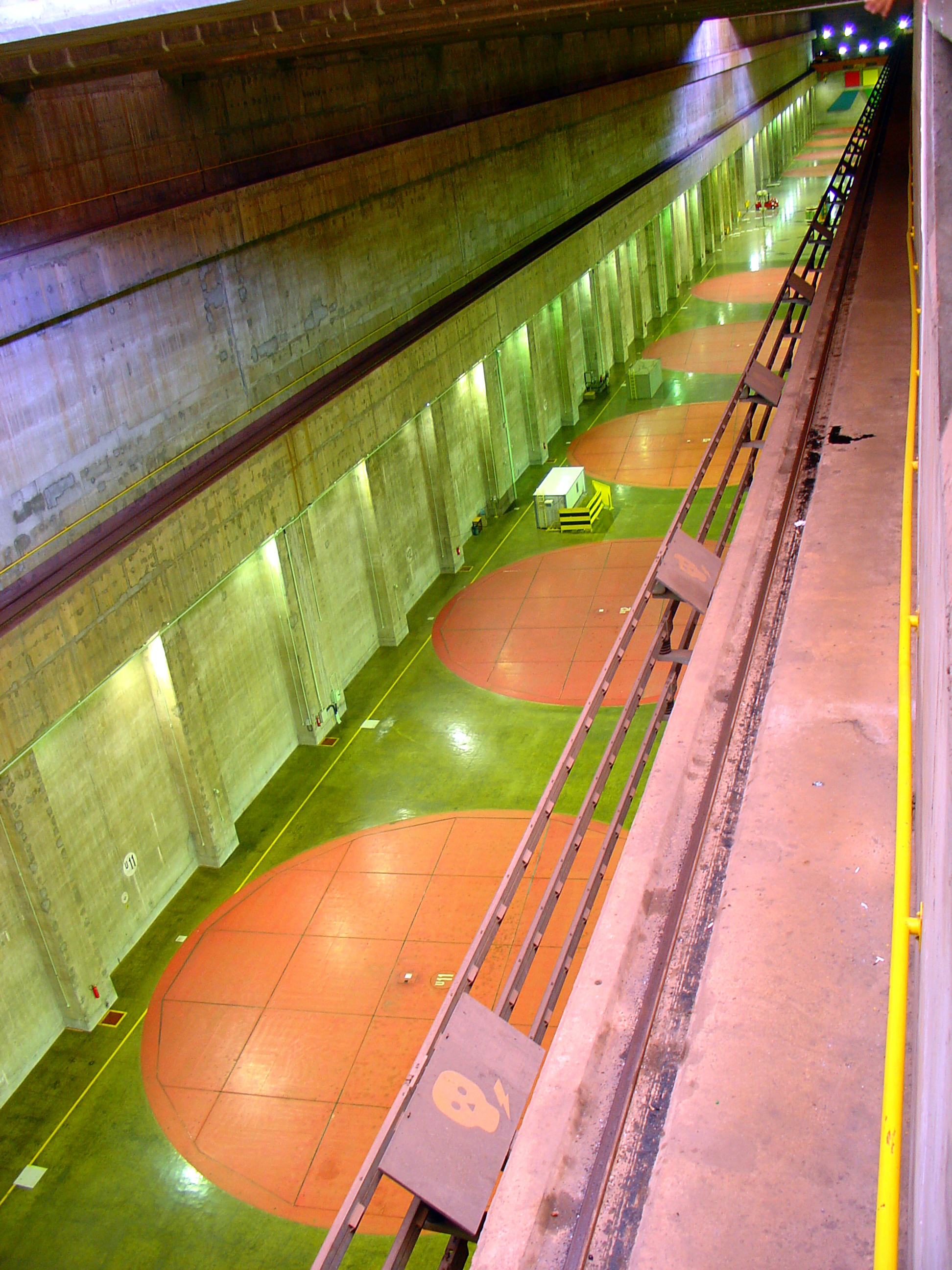 Generator room in Itaipu dam